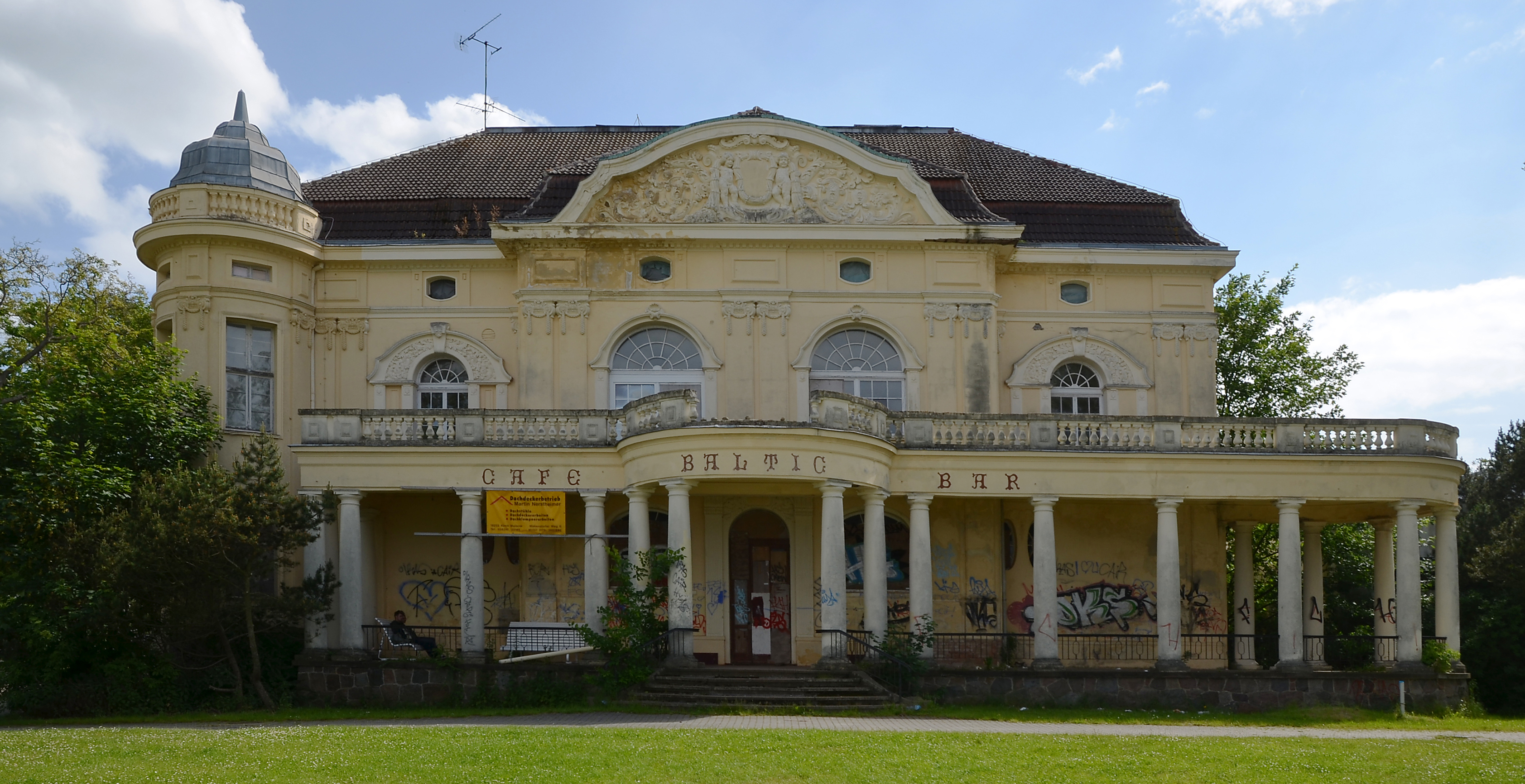 Villa Baltic, Ostseeallee 44, Kühlungsborn, distrikt Rostock, Mecklenburg-Vorpommern, Germany